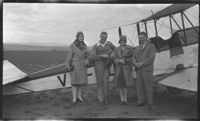 DH 60 Gispy Moth VH-UJX [picture], Horrie Miller (second from the left) Descript'n 1 negative : b&w ; 11 x 7cm. Series Jimmy Woods collection of photographs; BA891/436. Terms of use For personal use only. To publish or display, contact the State Library of Western Australia. Note Title supplied by cataloguer. This image has been preserved and made available by the Historical Records Rescue Consortium Project supported by Lotterywest. Summary Horrie Miller - founder of MacRobertson Miller Airlines - second from the left and others. Subject Miller, H.C. (Horace Clive), 1893-1980. MacRobertson Miller Airlines. Airplanes -- Western Australia -- Photographs. Online image.